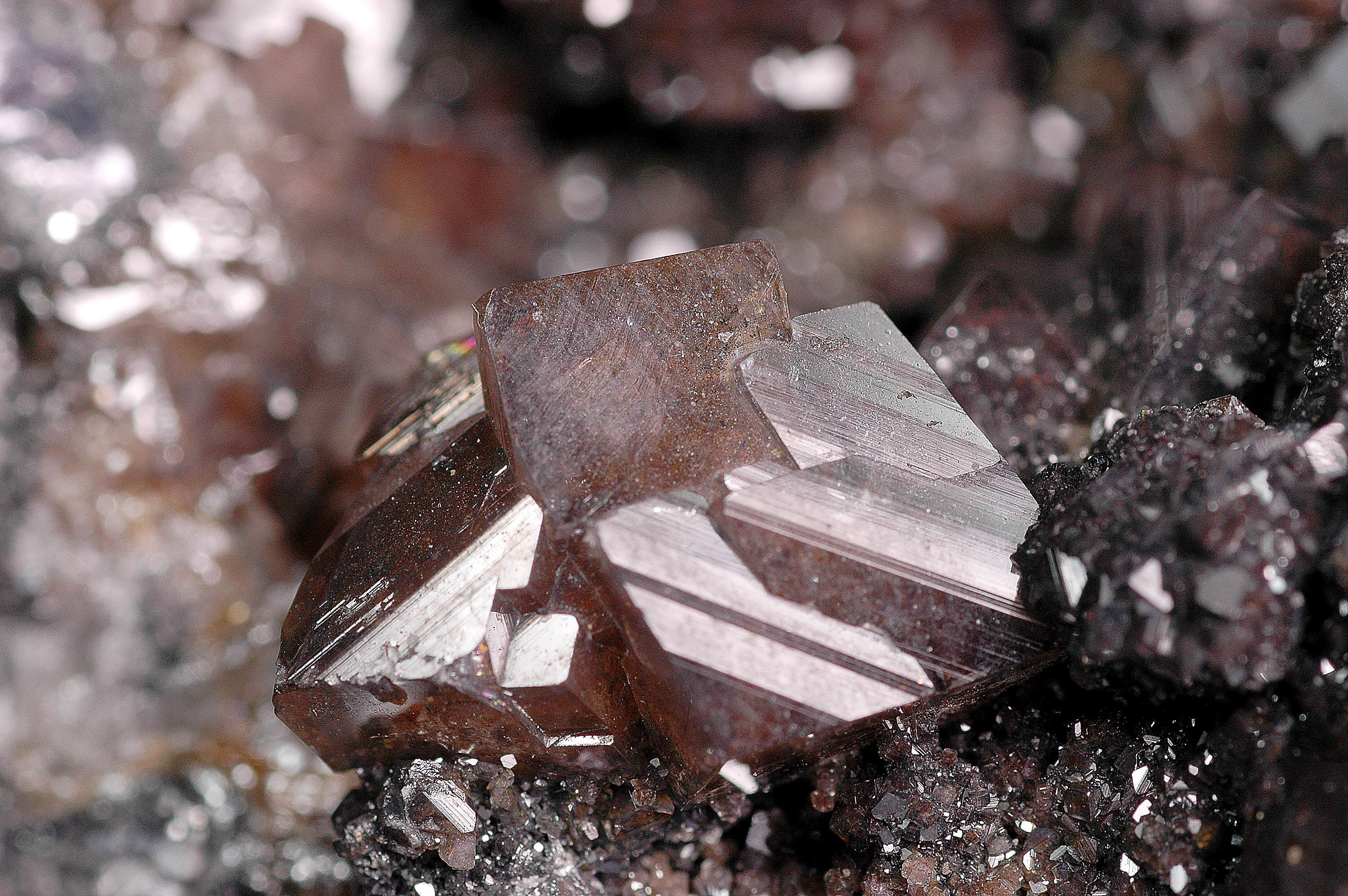 Detail of the crystal Anglesite, found in Oujda-Angad (Morocco)